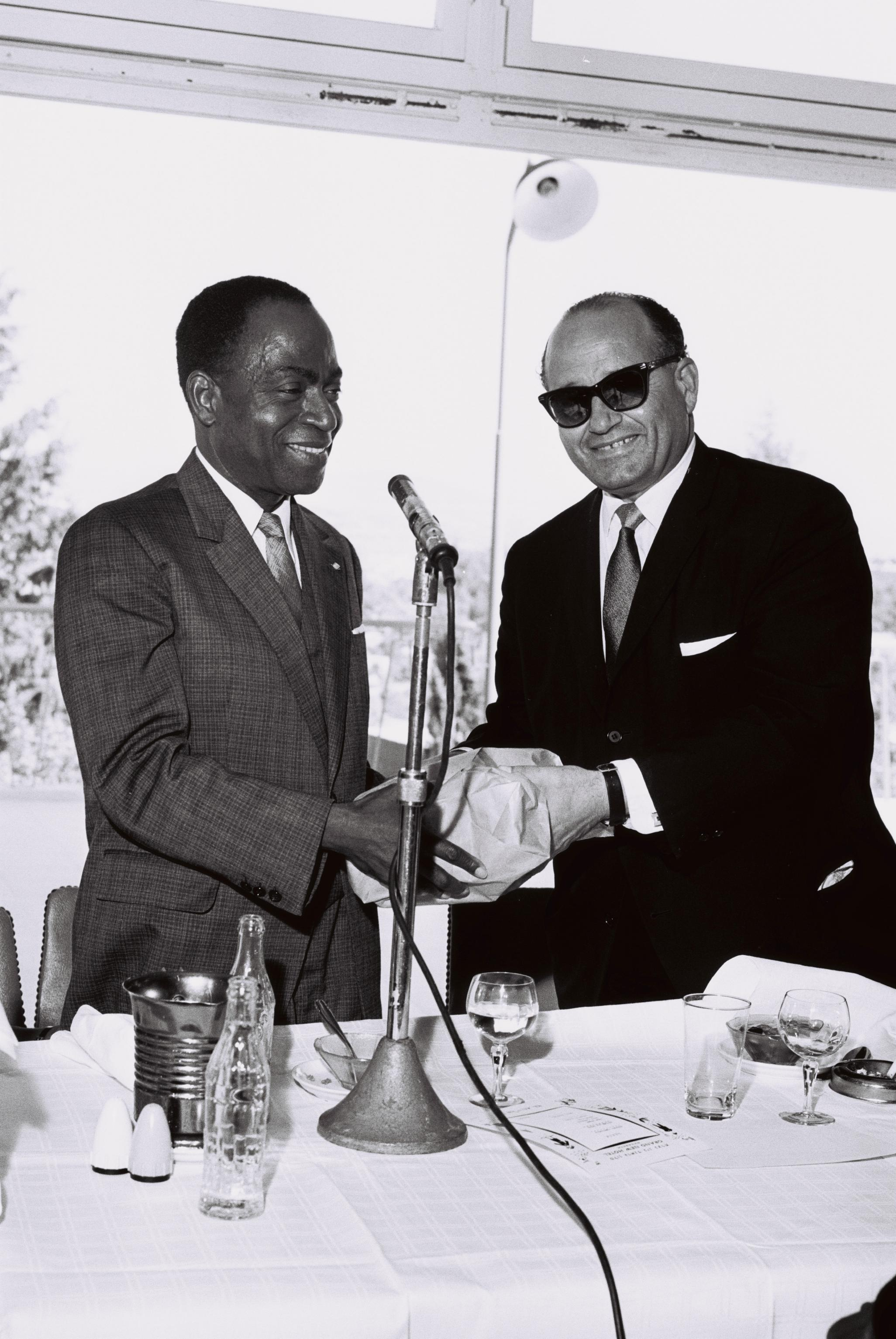 President of Ivory Coast, Félix Houphouët-Boigny, meeting with Nazareth mayor, Seif a-Din Zoabi